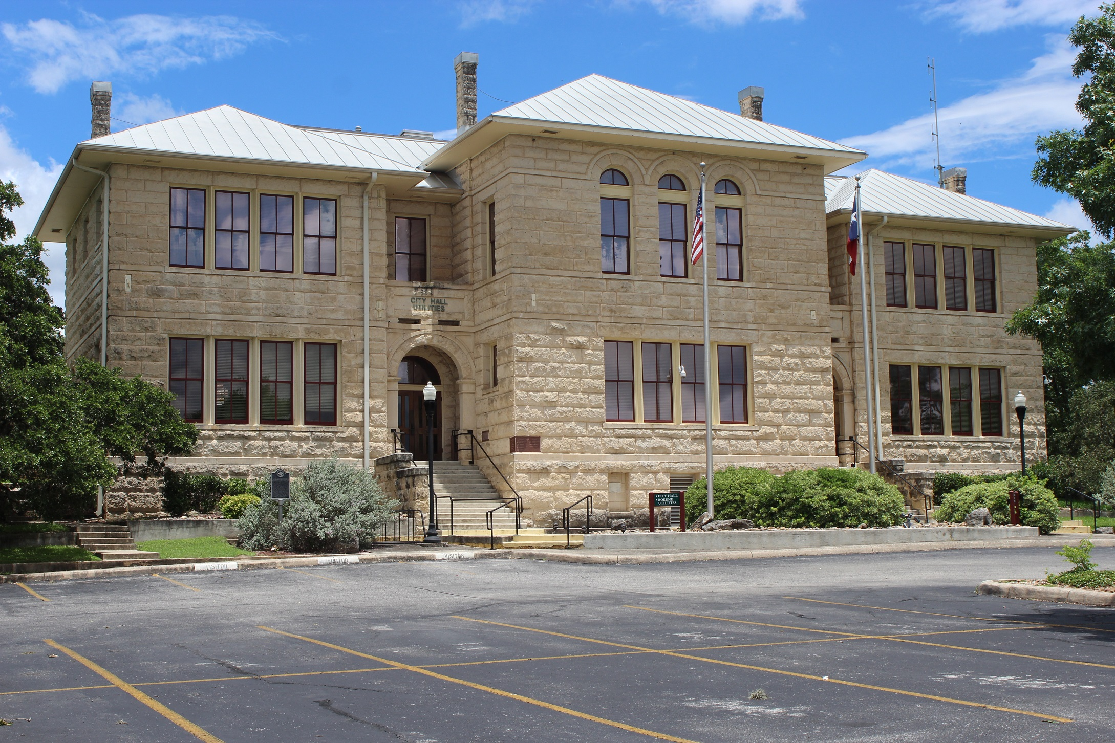 Early Boerne Schoolhouses. The origins of public schools in Boerne date to 1873, when the Boerne Gesangenverein donated land on which to erect a schoolhouse. A two-room stone building was completed in 1874 and served children in all grades. A small frame building was added to the property around the turn of the century, and the upper and lower grades were separated. In 1910 a new two-story stone school was built. It served students of all ages until a high school was built on Johns Road in 1929. The 1910 building was sold to the City of Boerne Utilities in 1951. Texas Sesquicentennial 1836-1986 #1337